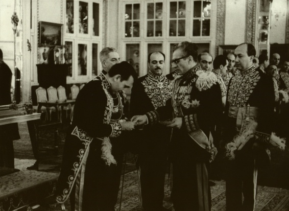 Ghassem Rezai with Shah Of Iran and the cabinet of Prime Minister Mansoor, at Niavaran Palace. Tehran, Iran. 1964